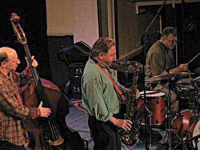 Jerry Bergonzi at Bennett Alliance